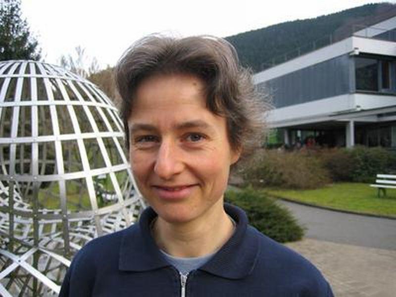 Gabriele Nebe, Oberwolfach 2005